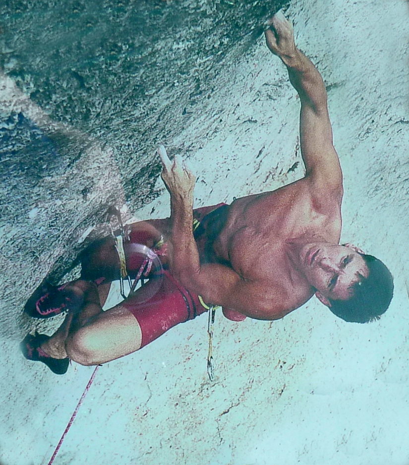 Wolfgang Güllich